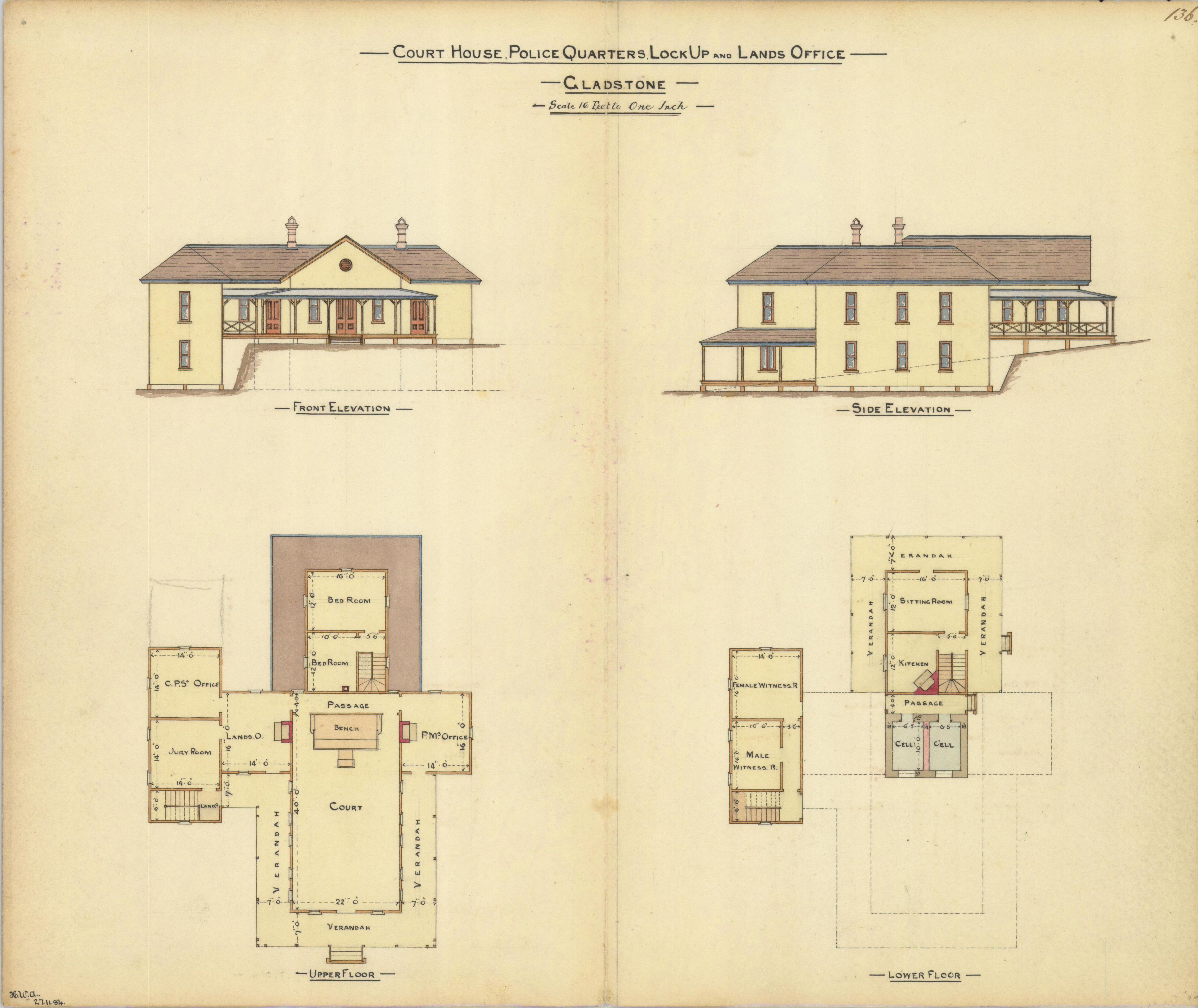 Architectural drawing of the Court House, Police Quarters, Lockup and Lands Office, Gladstone, 27 November 1884